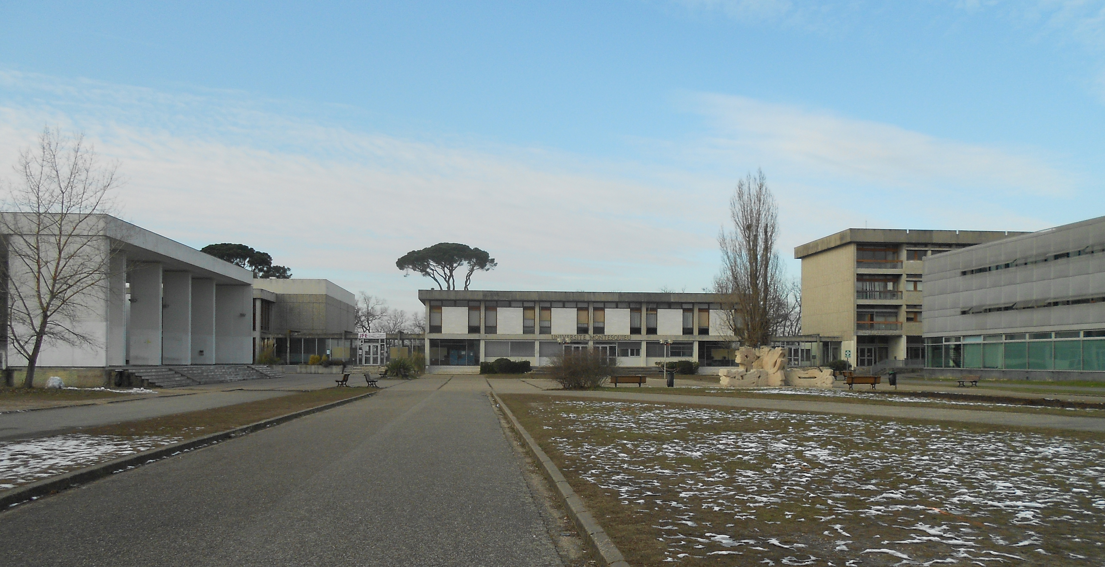 Main buildings of Montesquieu Bordeaux-IV University in February 2012.